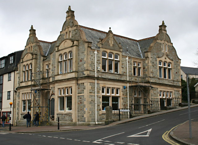 Bodmin Library This building was opened in 1897 as the John Passmore Edwards Bodmin Free Library, one of the many buildings in Cornwall endowed by the Victorian philanthropist. It has suffered many structural problems in the past and judging by the scaffolding still does.